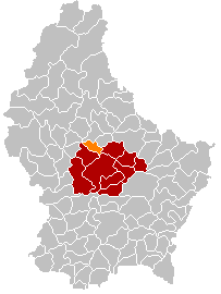 Own edit of Kanton MerschLocatie.png